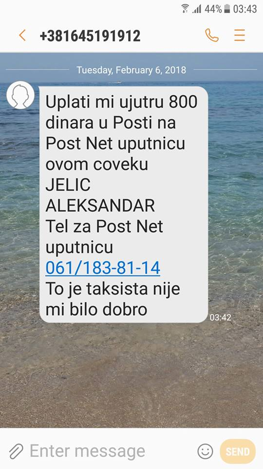 Text message fraud, screenshot, Serbia